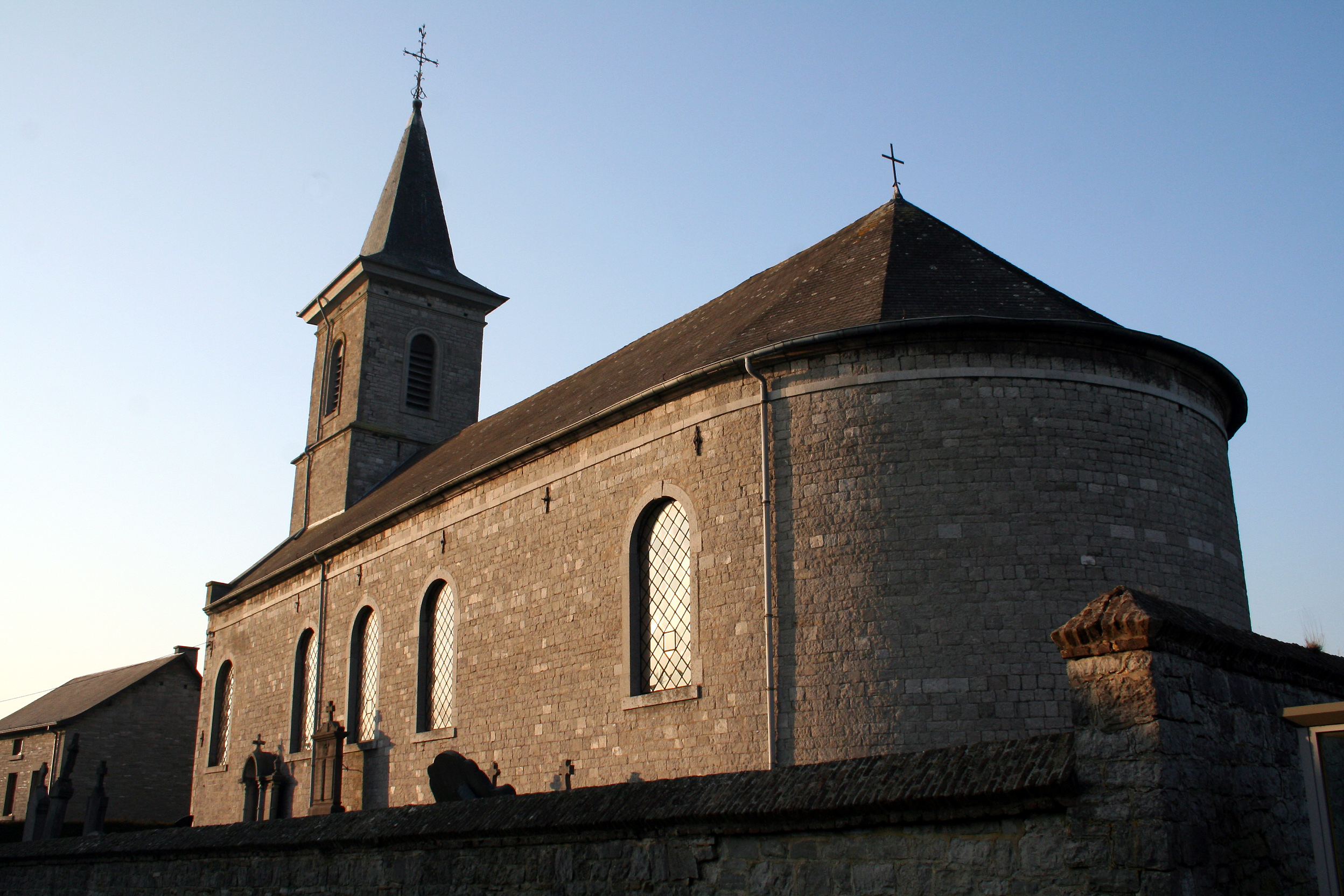 Lisogne (Belgium), the Saint Bartholomew’s church (XVIII/XIXth centuries). Walon: Lizogne (Bèljike), l’èglîje Sint-Biètrumé (XVIII/XIXin.me sièkes).